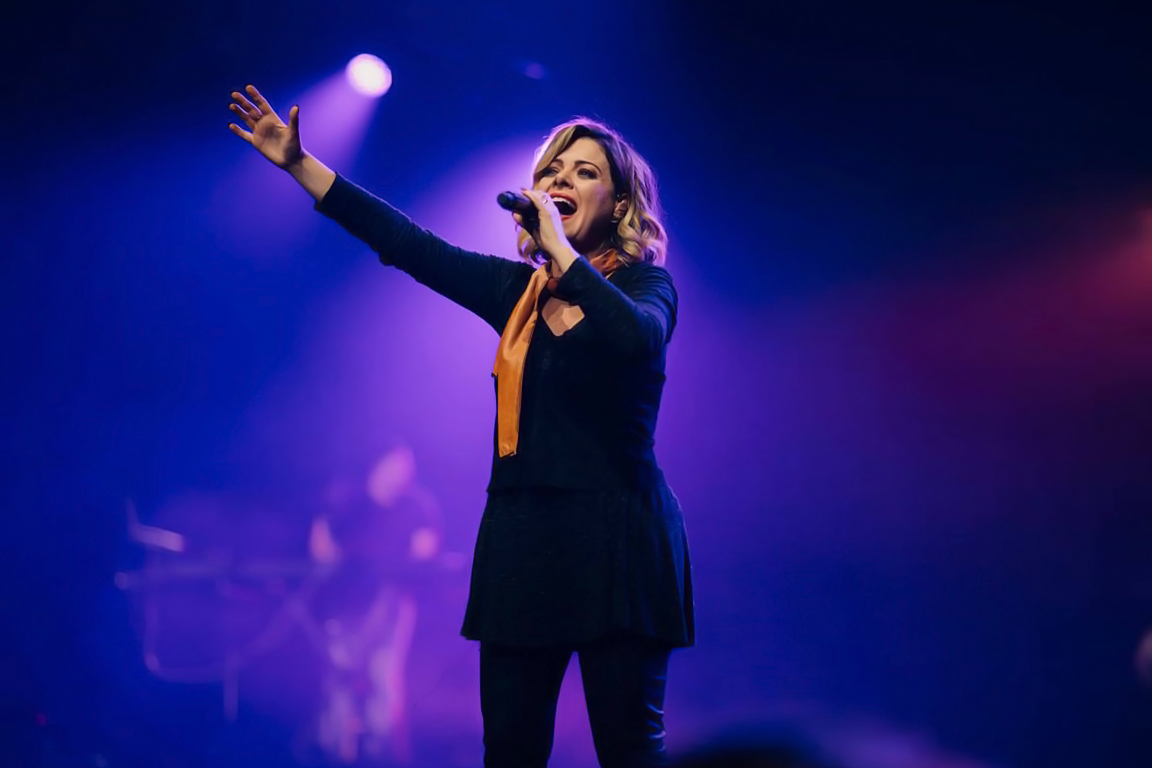 The brazilian singer/worship leader Ana Paula Valadão Bessa live at Christ For The Nations Institute.